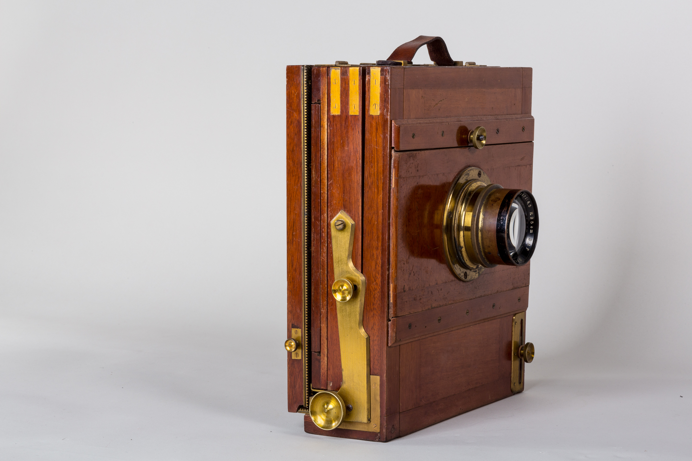 Globus M, a 18x24 cm large format "Reisekamera", manufactured between 1899 and 1919 in Dresden by Ernst Herbst & Firl, Görlitz for the camera manufacturer Heinrich Ernemann in Dresden